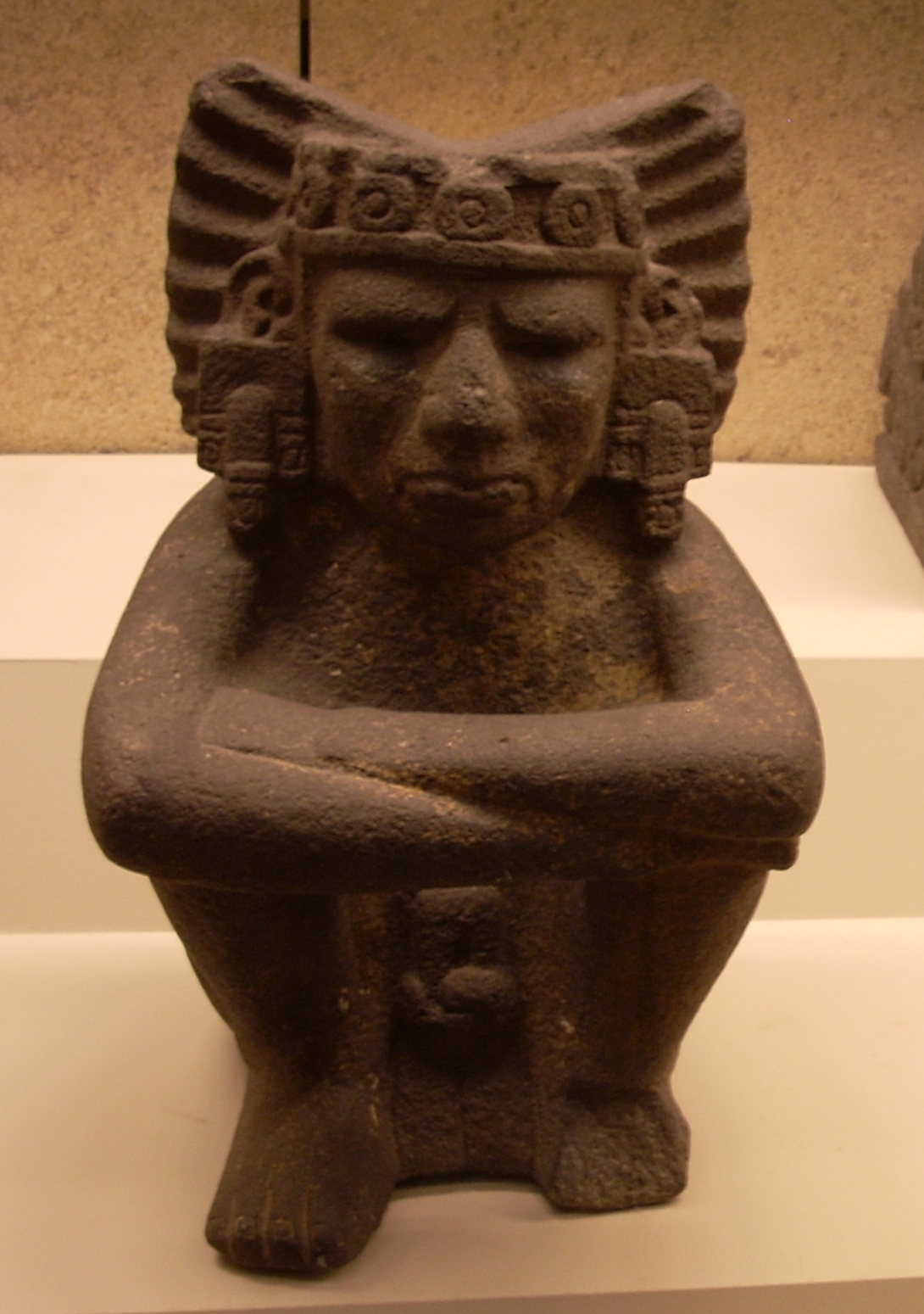 Seated stone figure of Xiuhtecuhtli, Aztec god of fire. AD 1325-1521. British Museum, London.